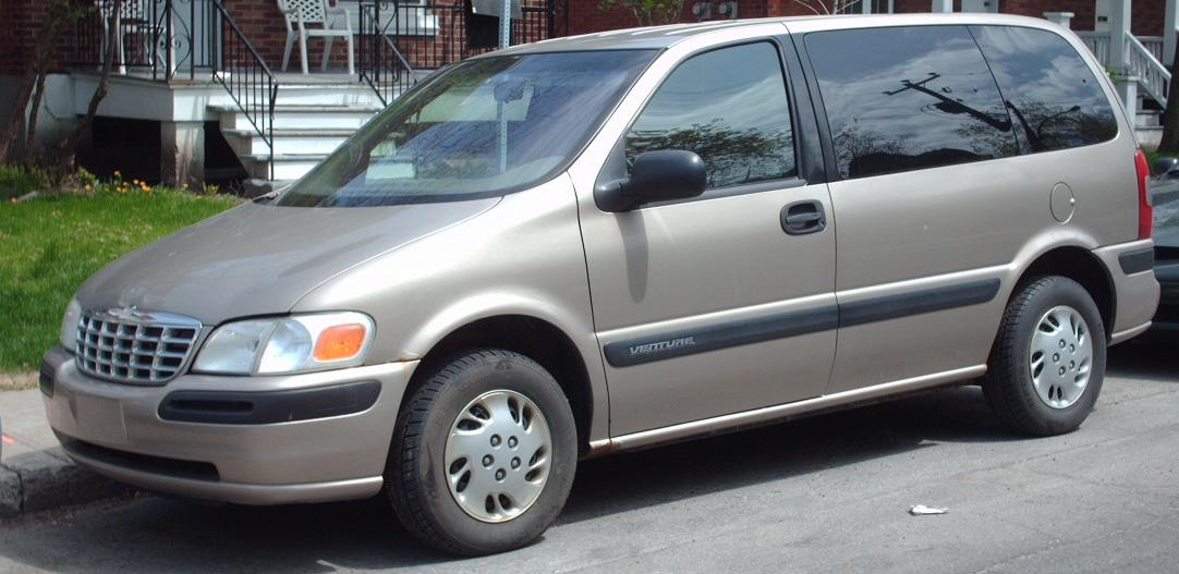 1997-2000 Chevrolet Venture photographed in Montreal, Quebec, Canada.